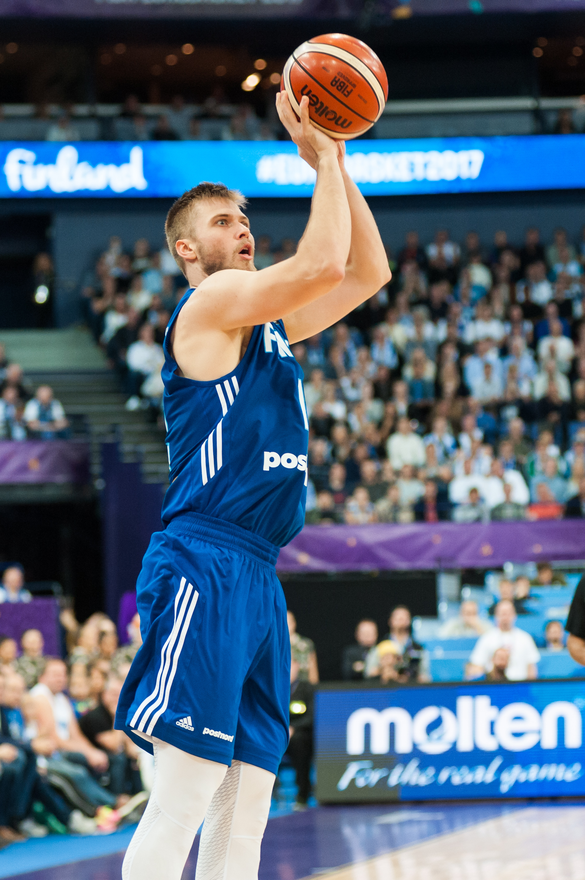 EuroBasket 2017 Group A game between Greece and Finland at Hartwall Arena in Helsinki, Finland.